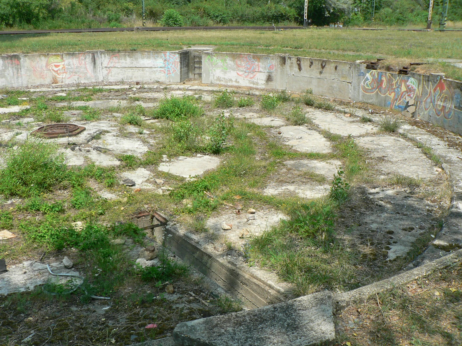 Alsóörs fordítókorong helye